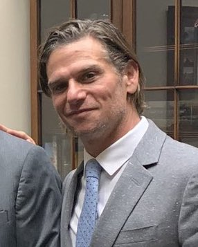 Mark Kassen